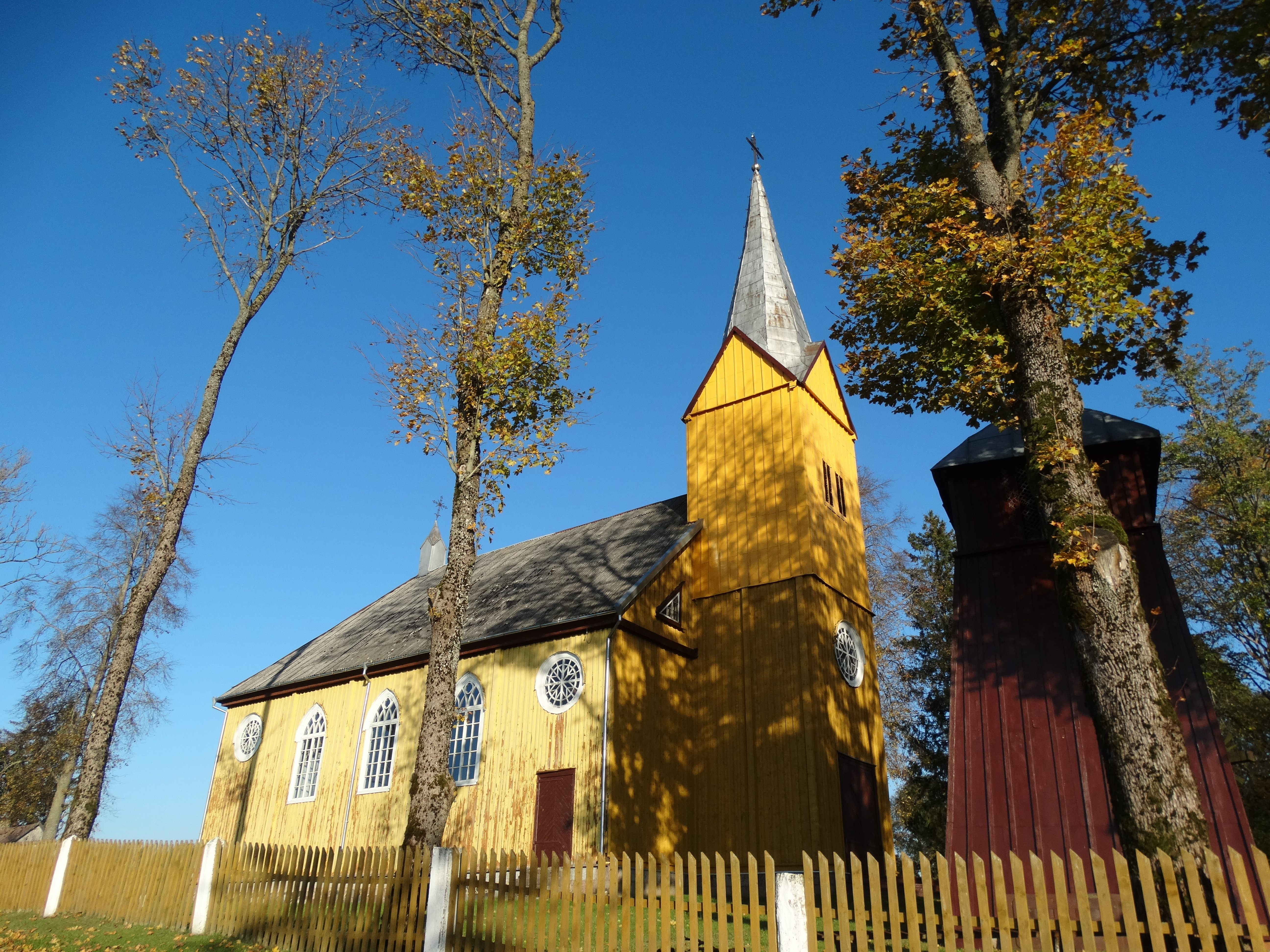 St. Anne's Church in Vaičaičiai, Skuodas District, Lithuania